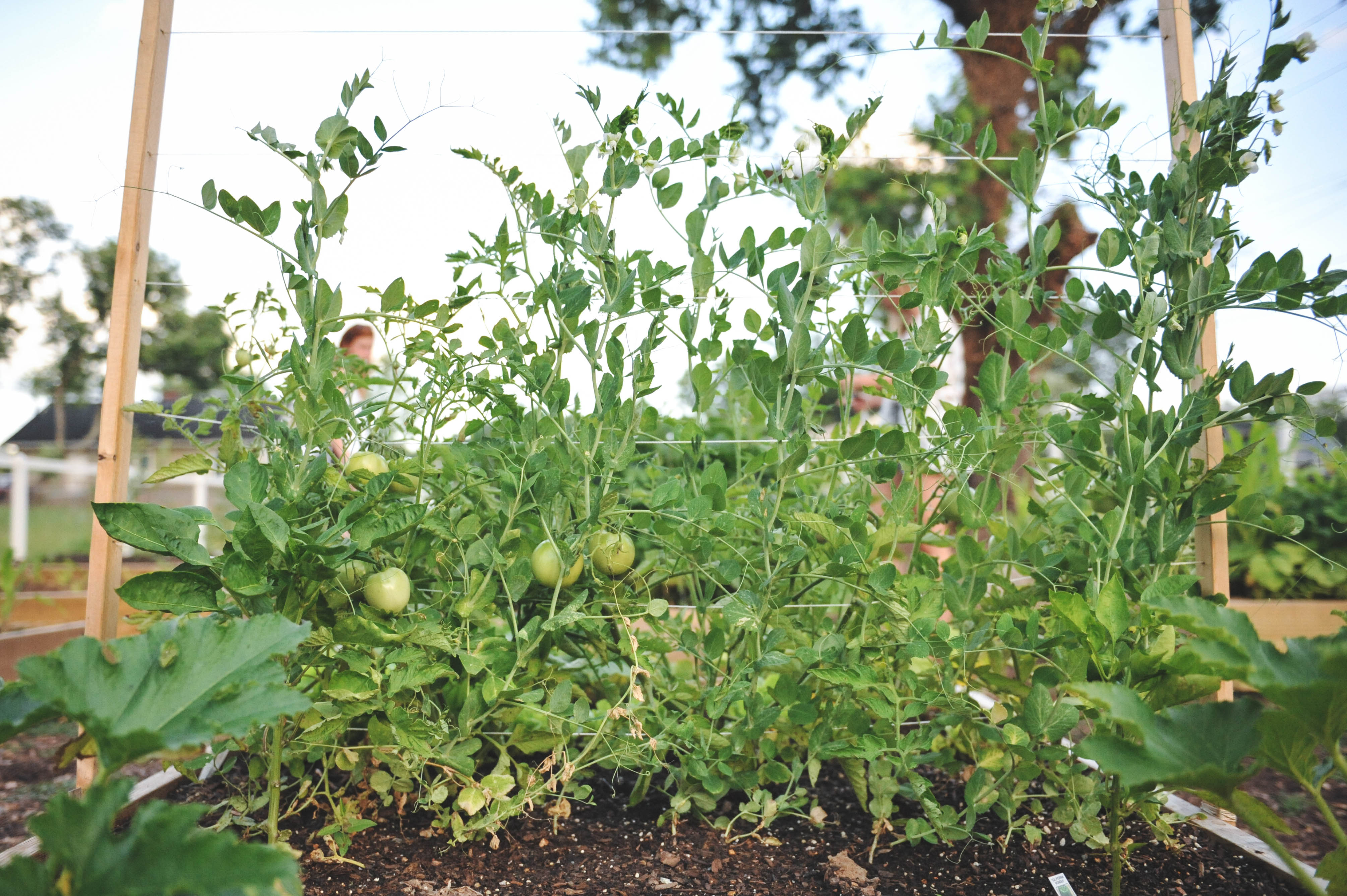 This photo was taken by Andrea Spidell for Thrive Lonsdale